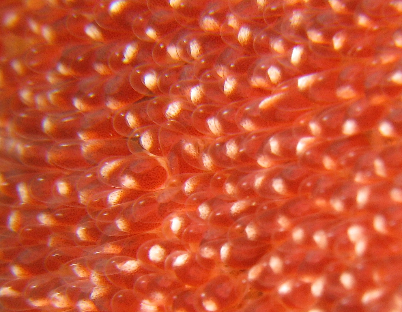 Anemone Fish Spawn